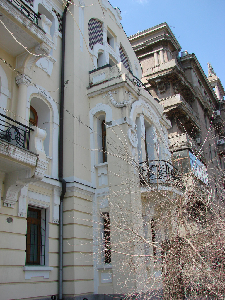 Vladivostok, Yul Brynner's birthplace, built in 1910 by Georg Junghändel.